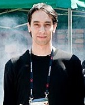 BenjaminKunzMejri